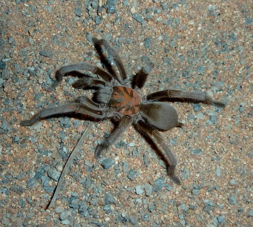 Eastern tarantula (Selenocosmia stirlingi), Northern Territory, Australia